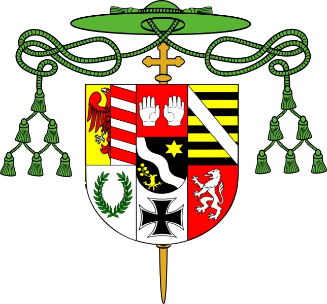 Coat of arms Vinzenz Joseph von Schrattenbach, bishop of Lavant (1777-1790, 1795-1800), bishop of Brno (1800-1816).